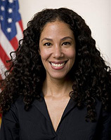 MONA SUTPHEN